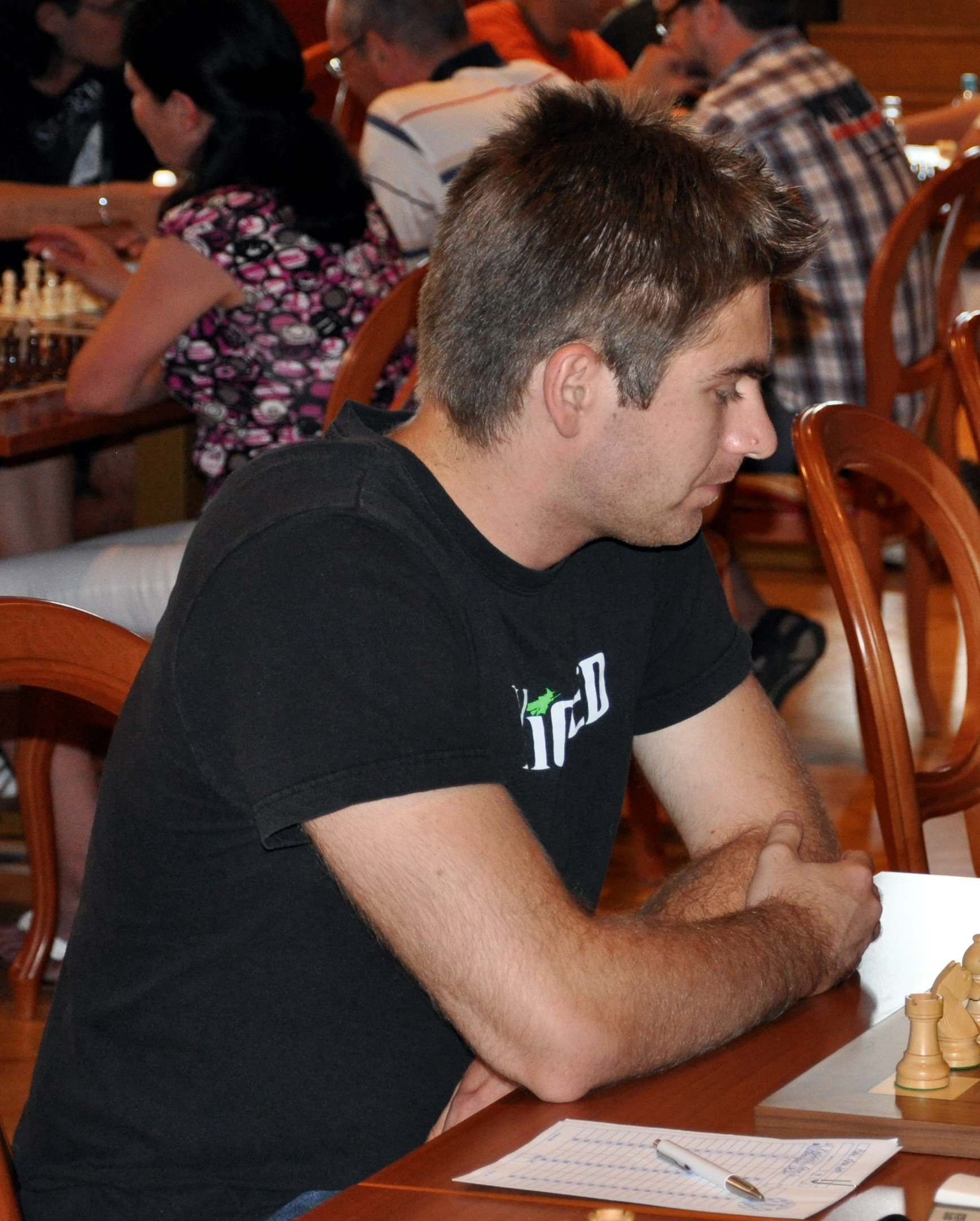 GM Davorin Kuljasevic, Pula Open 2011.